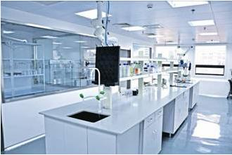 R&D laboratories of Schobrunn